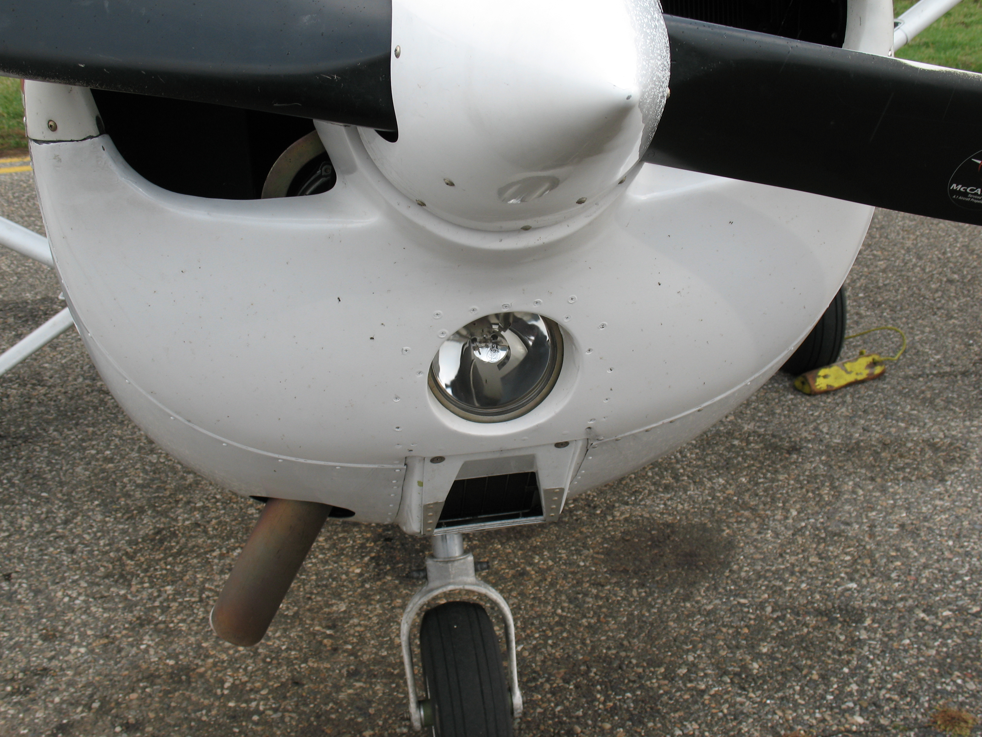 Cessna 172 Landing Light.